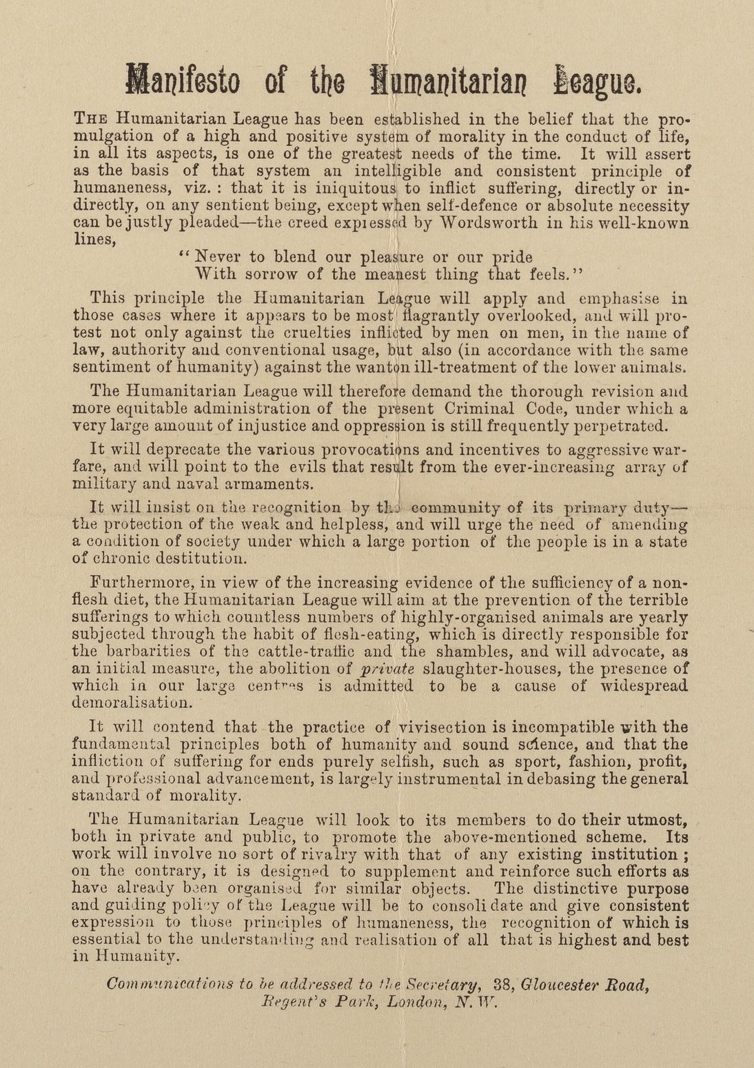 Blackwell family. Papers of the Blackwell family, 1831-1981, Folder 48. Elizabeth to Emily. 1881-1893.